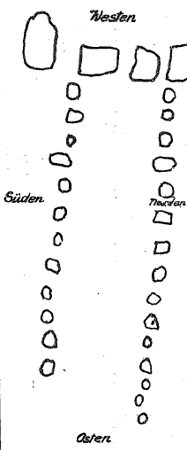 Layout of the Dolmen Tryppehna 2